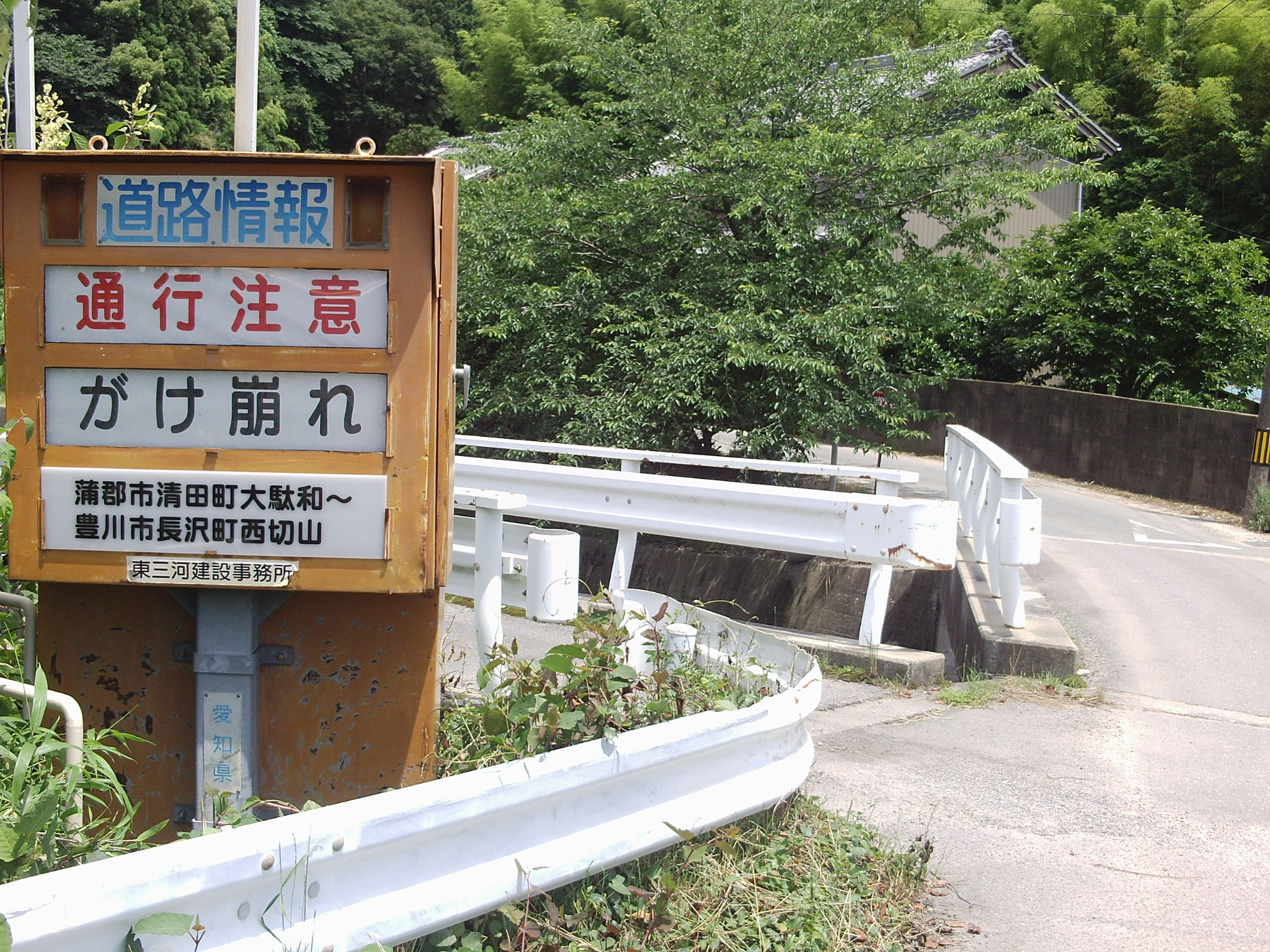 The Aichi Prefectural Road Route 73 in Idogasawa Seidacho, Gamagori City. Sign reads: "Attention required/Landslide"